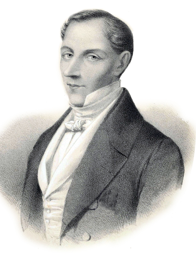 Diego Portales Palazuelos (Santiago of Chile; June 16, 1793 - Quillota; June 6, 1837) was a Chilean politician, Minister of State and fundamental figure of the political organization of his country.